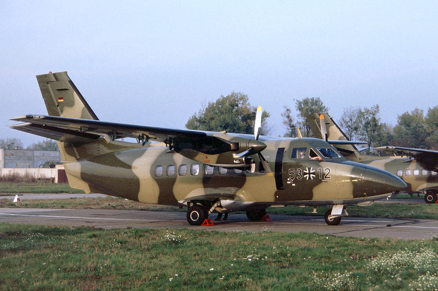 The East German Air Force had 12 Let 410's for training and liaison duties. Four were stationed at Strausberg, close to Berlin and the HQ. When I visited the base (arranged at the gate) the aircraft had already lost their East German markings. And the An-2's were gone :(